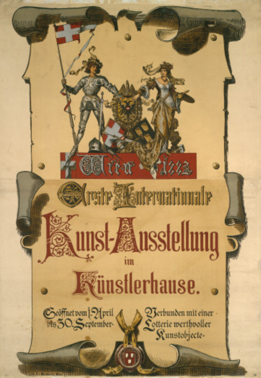 1st international expo of art in vienna, Künstlerhaus 1882